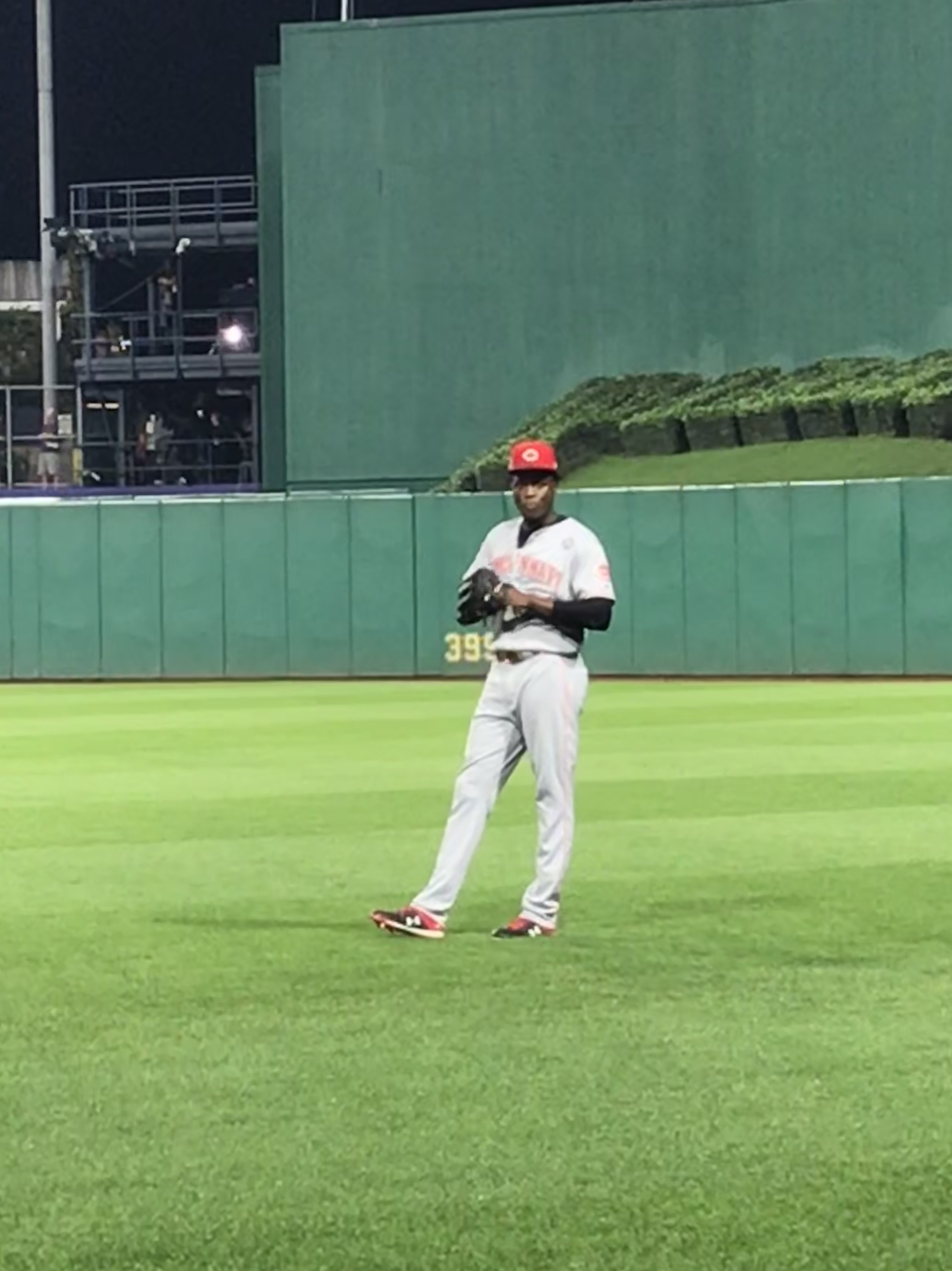 Aristides Aquino in Pittsburgh